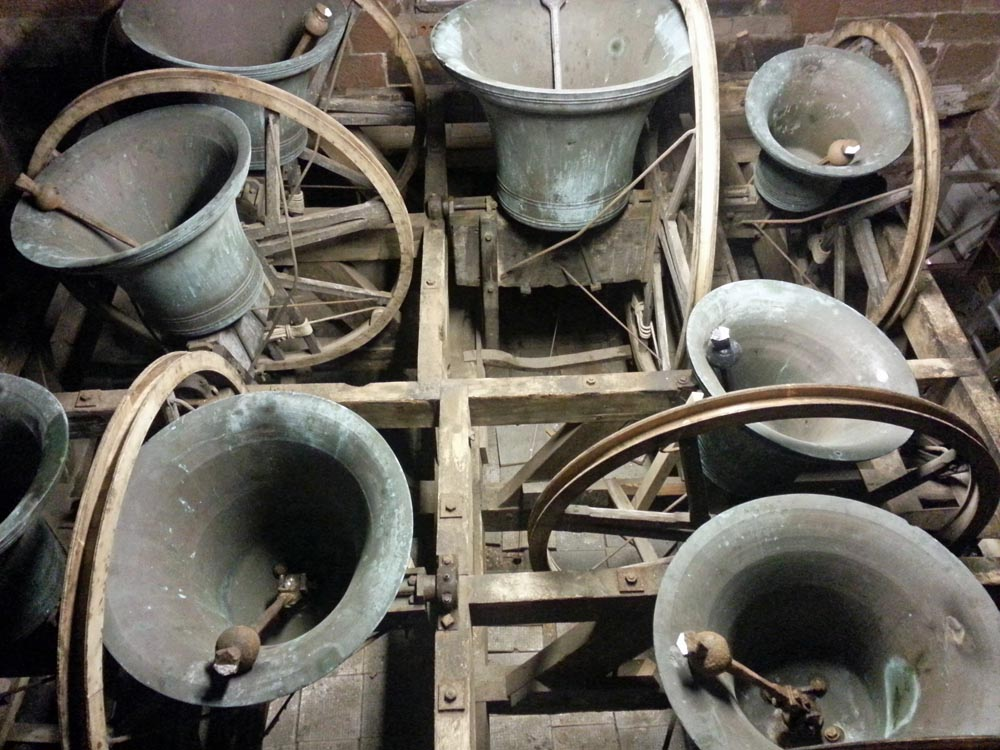 The eight bells of St Bees Priory, Cumbria, shown in the "up" position, in which they are normally left during rests in a ringing session. When being rung they swing through a full circle from mouth upwards round to mouth upwards, and then swing back again. They are controlled by ropes on full-circle wheels. This method of ringing is know as "English full-circle bell ringing". Bells cast in 1857 by Charles and George Mears of Whitechapel.